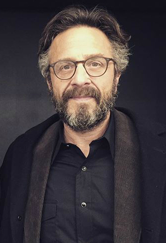 Marc Maron in December 2015 at the Condé Nast building